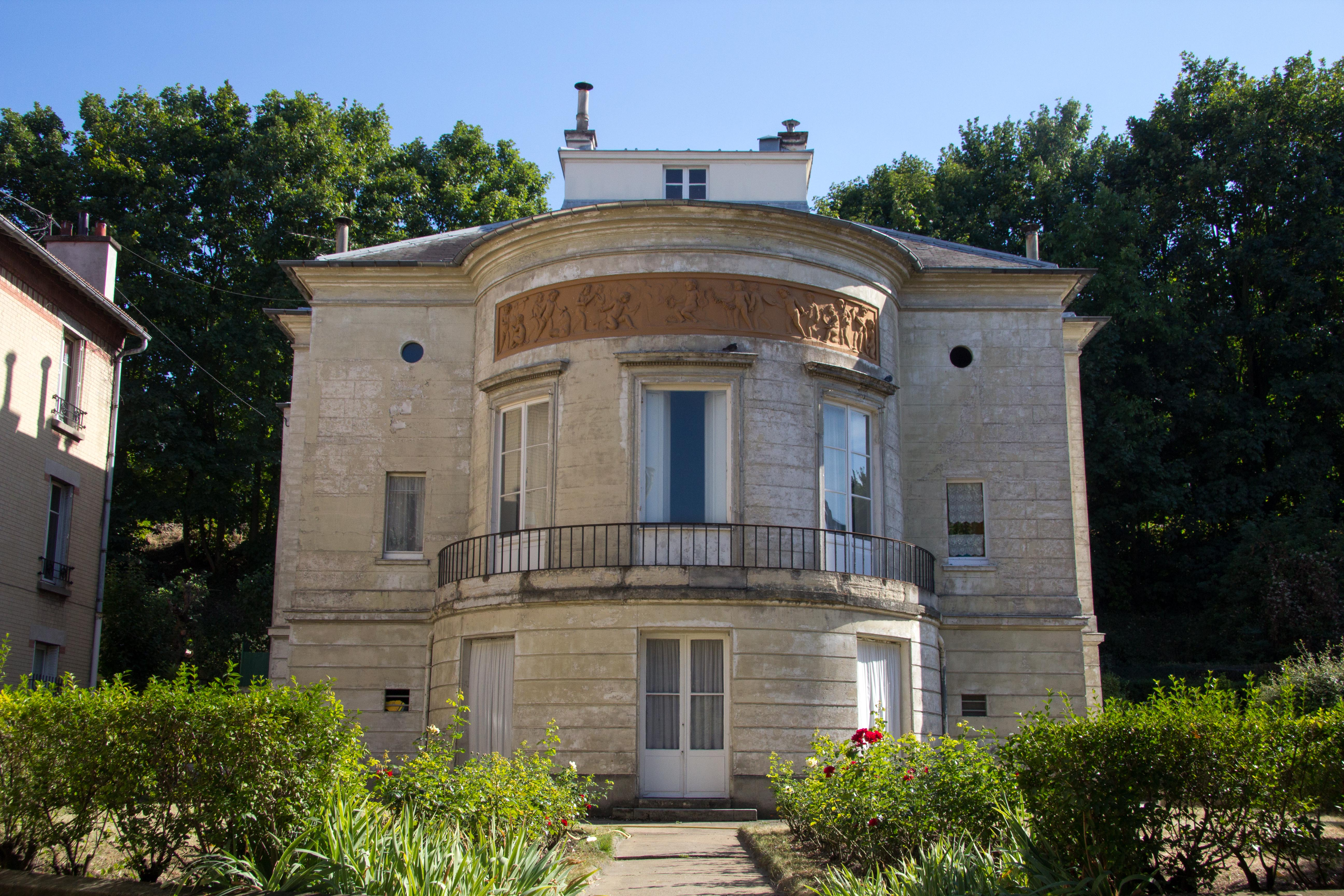 House of Jean-Jacques Huvé in Meudon sur Seine